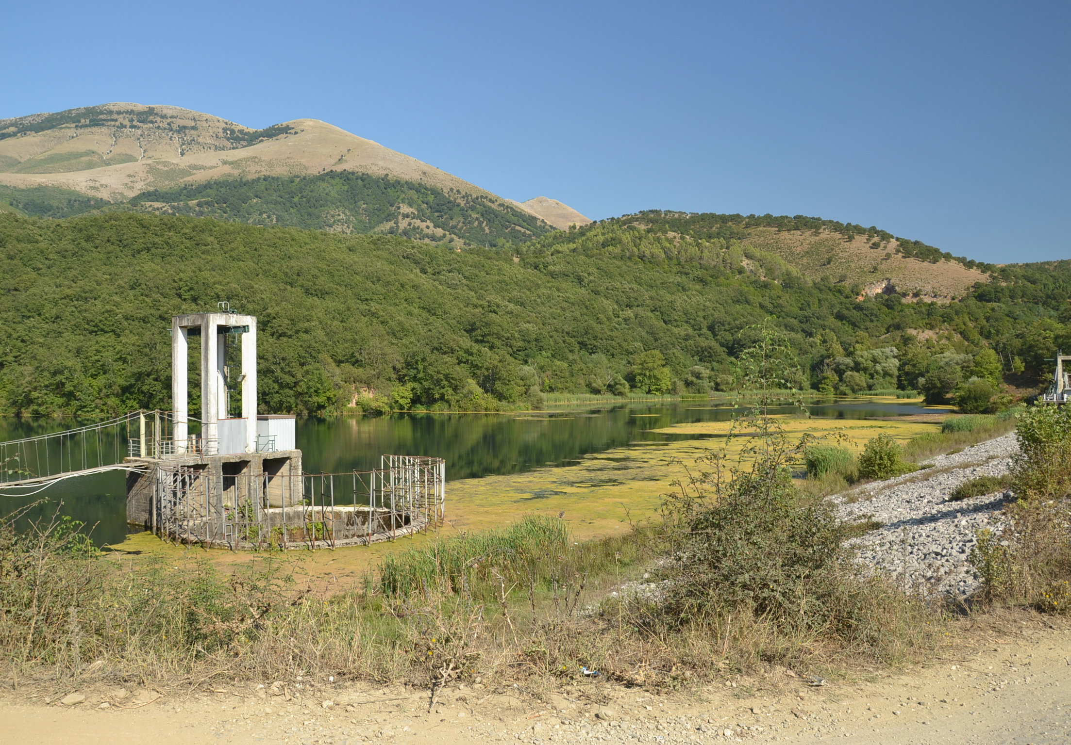 Bistrica Lake close to Blue Eye, Albania